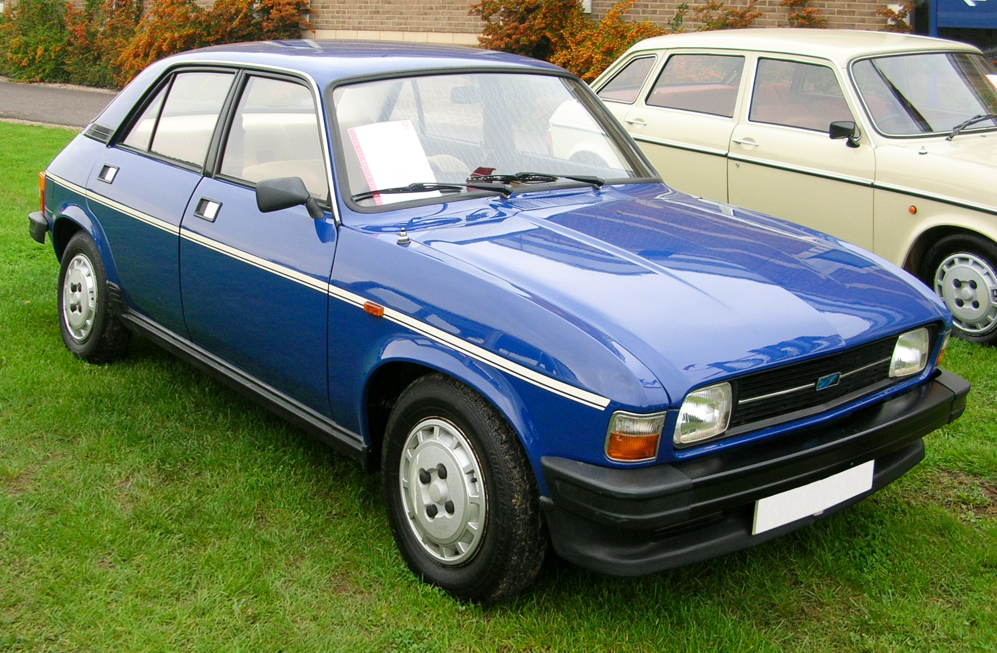 A 1982 Austin Allegro 1.5HL MkIII. Photographed at the Alec Issigonis centenary rally at the Heritage Motor Centre, Gaydon, UK. This example is the last Allegro made at Longbridge, and is kept at the Heritage Motor Centre.